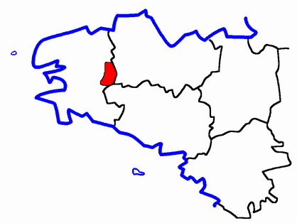 Description: Map for localisazion of cantons of Bretagne region in France Source: made by Hervé Tigier in april 2005 from another large map (published in 1990)